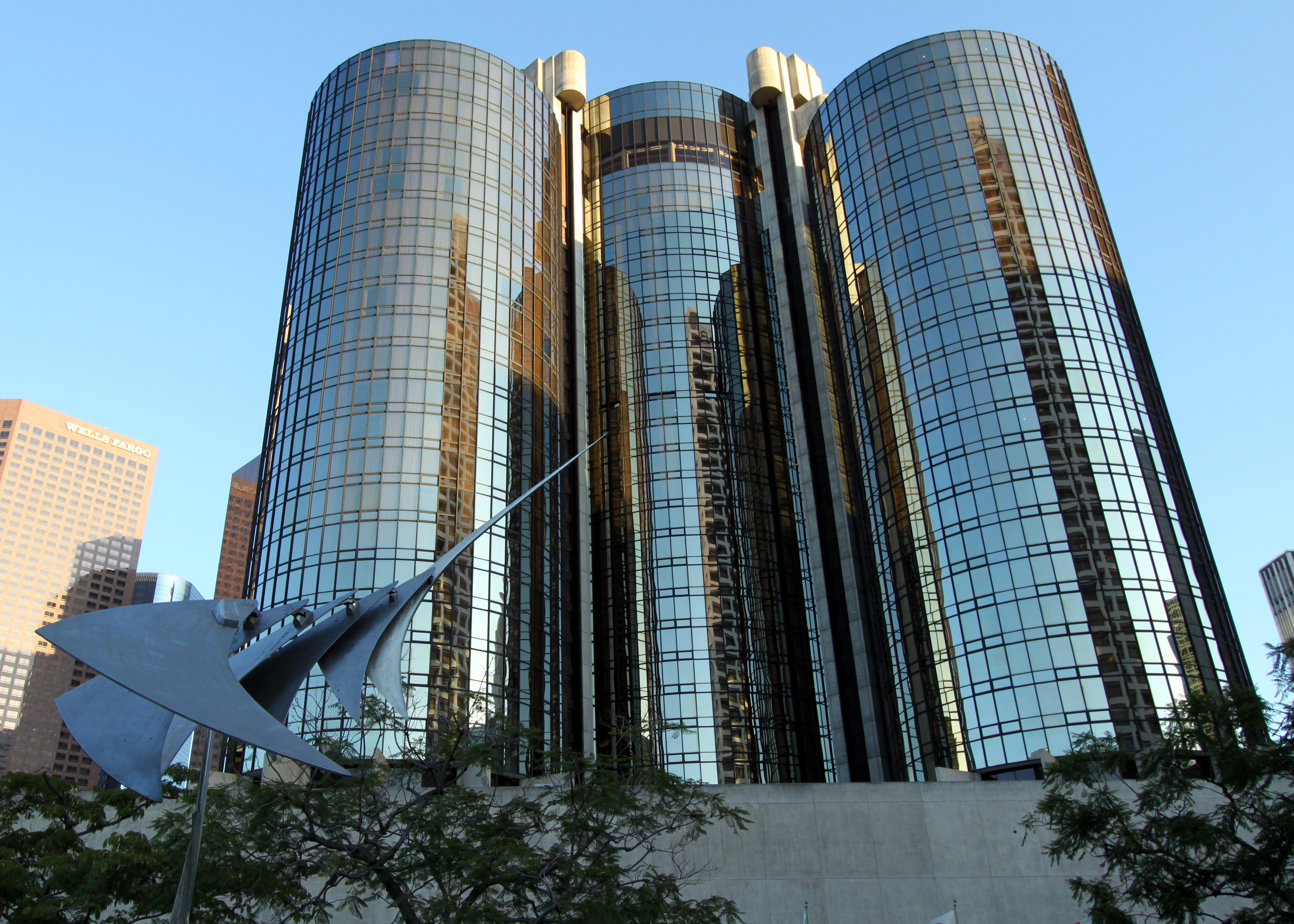 Down Town Los Angeles, California